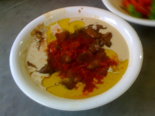 Same Fûl of Aleppo, but cropped.